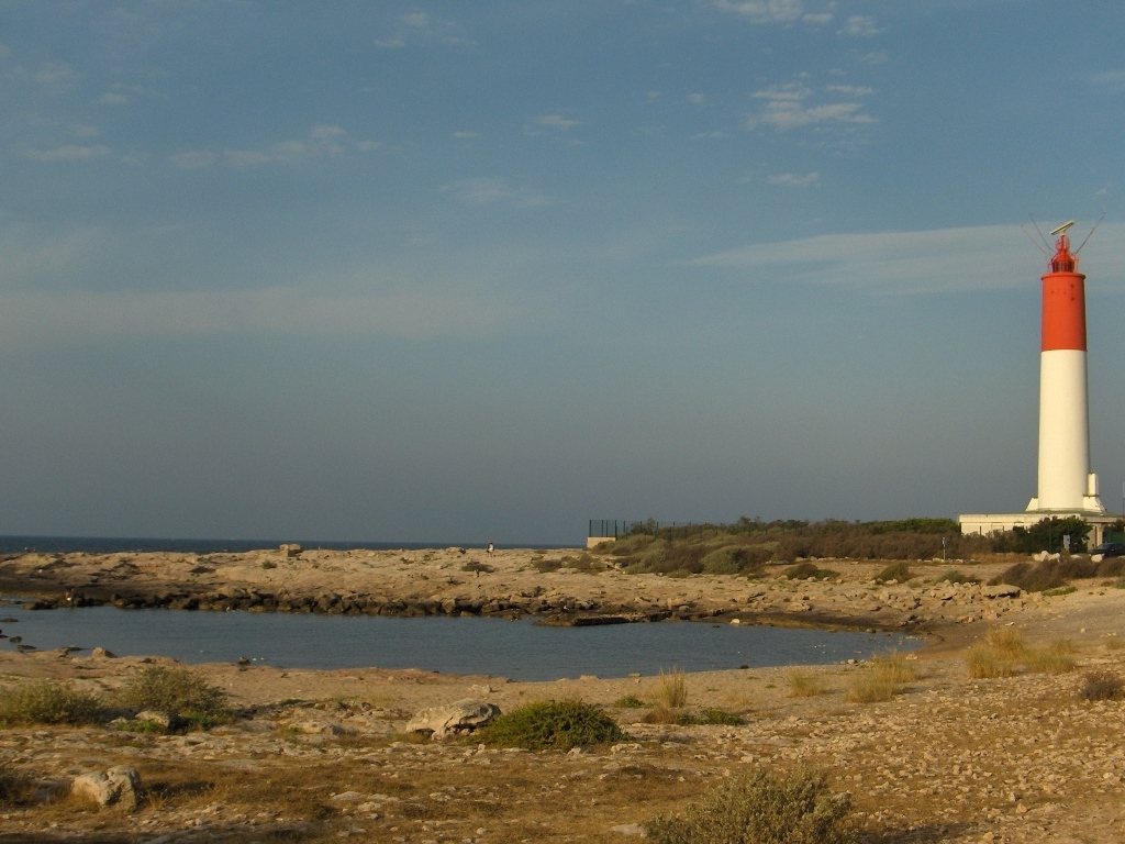 Martigues — La Couronne-Vieille beach